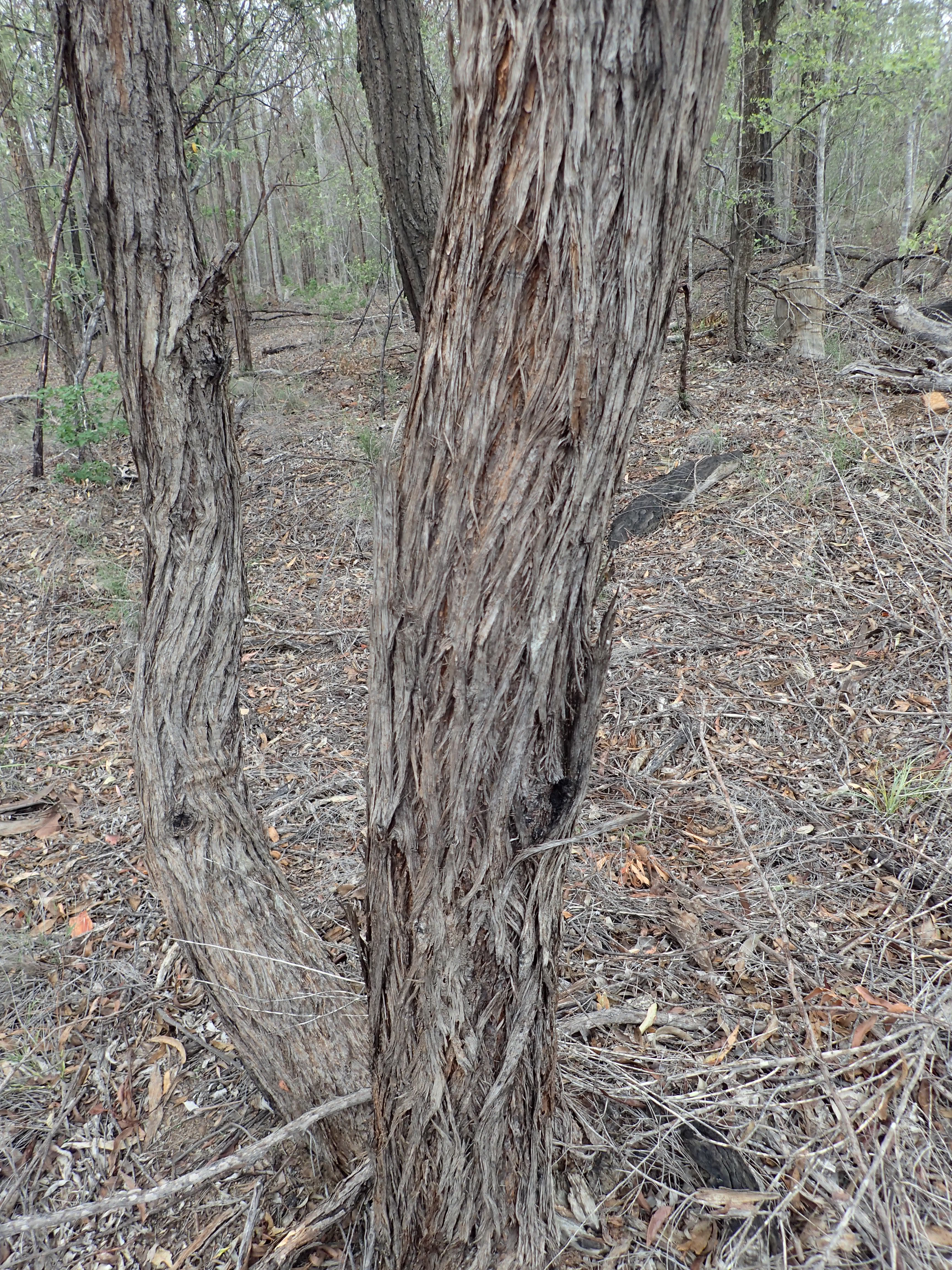 Bark on the trunk of Eucalyptus helidonica near Seventeen Mile Road, Helidon, Queensland